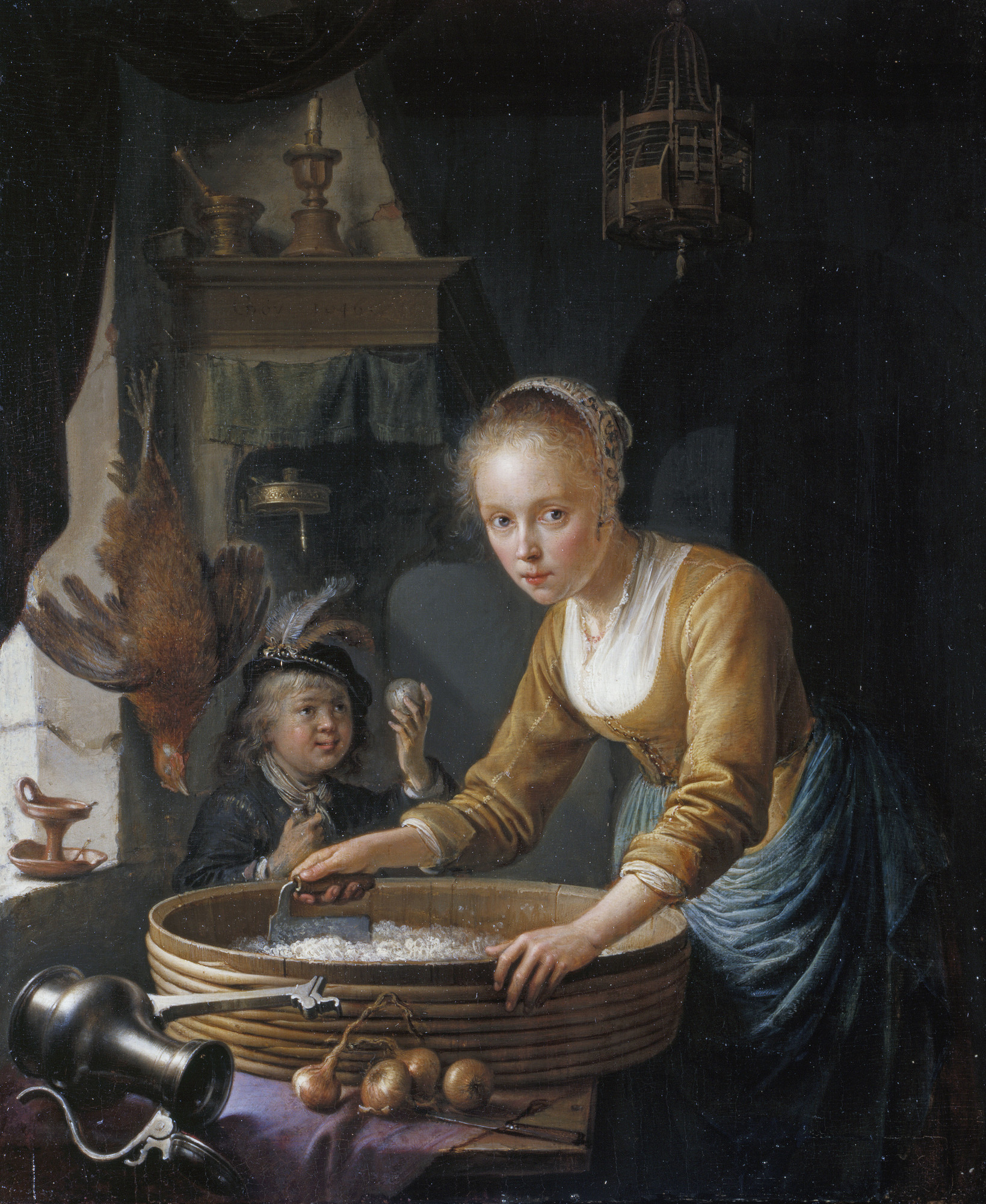 Gerrit Dou's paiting, Girl Chopping Onions, created about 1646, now in the Royal Collection, London; the color temperature, tint and saturation has been changed somewhat to better reflect the image as it appears at the website of the Royal Collection, which is presumably more accurate, but, for instance, the green wall in the background is blue in the Royal Collection's image. Viewers of this version should consult the version at the Royal Collection website. [1]